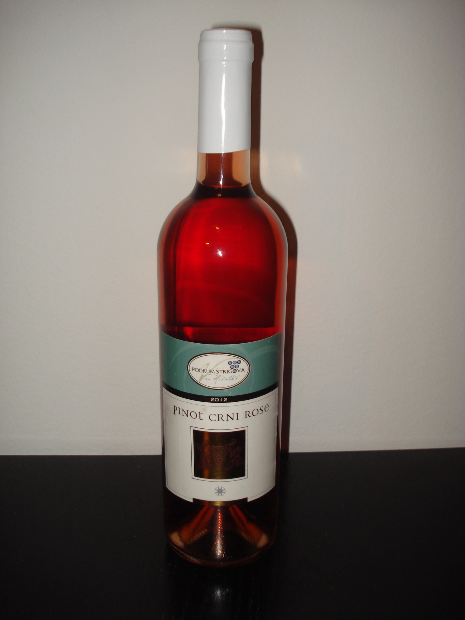 A bottle of Black Pinot wine (rosé) from Medjimurie wine growing subregion, northern Croatia